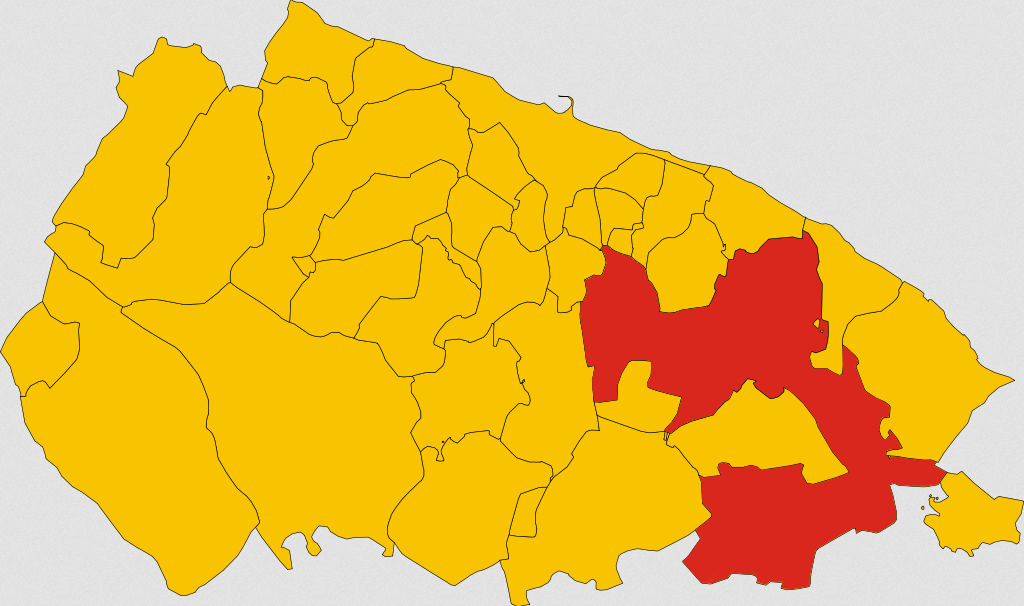 This map shows the land of the County of Conversano from 1600.